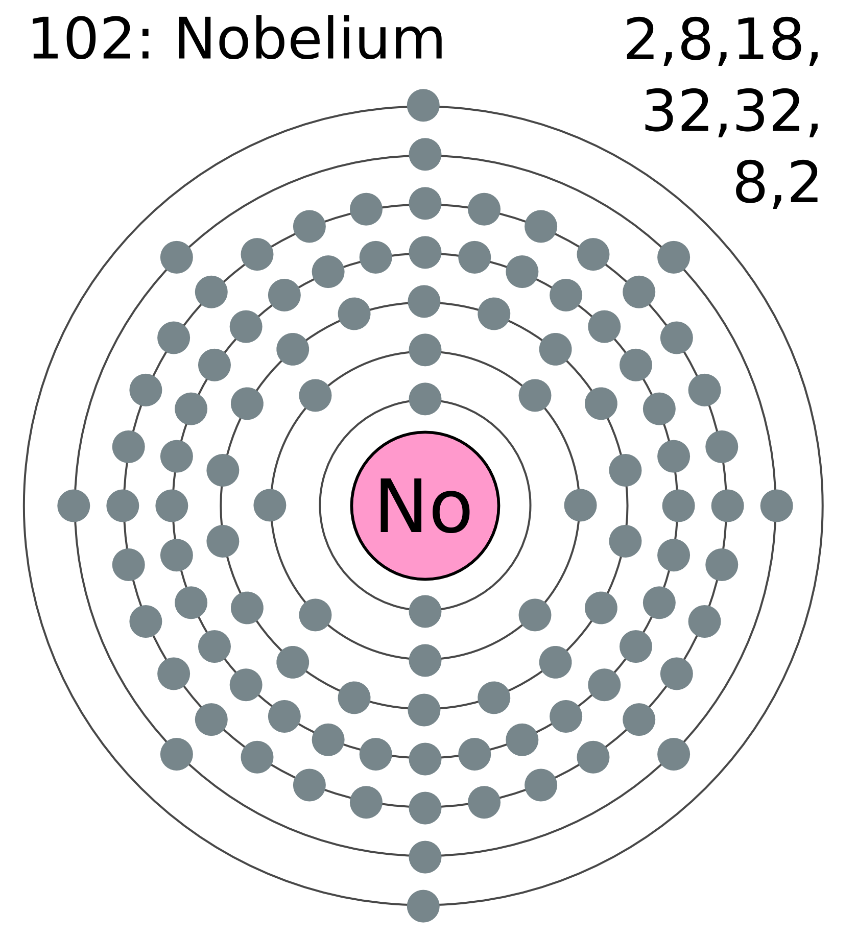 Electron shell diagram for Nobelium, the 102nd element in the periodic table of elements.